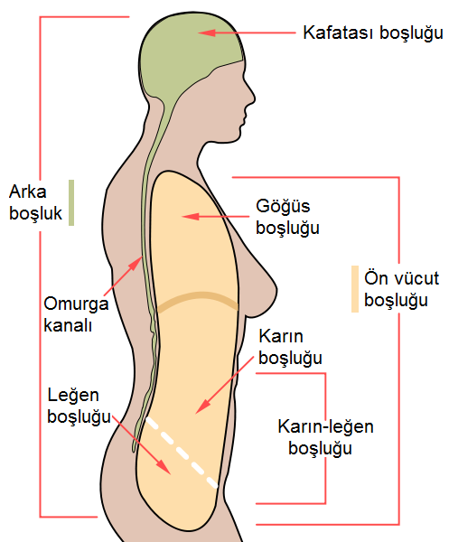 The body cavities.